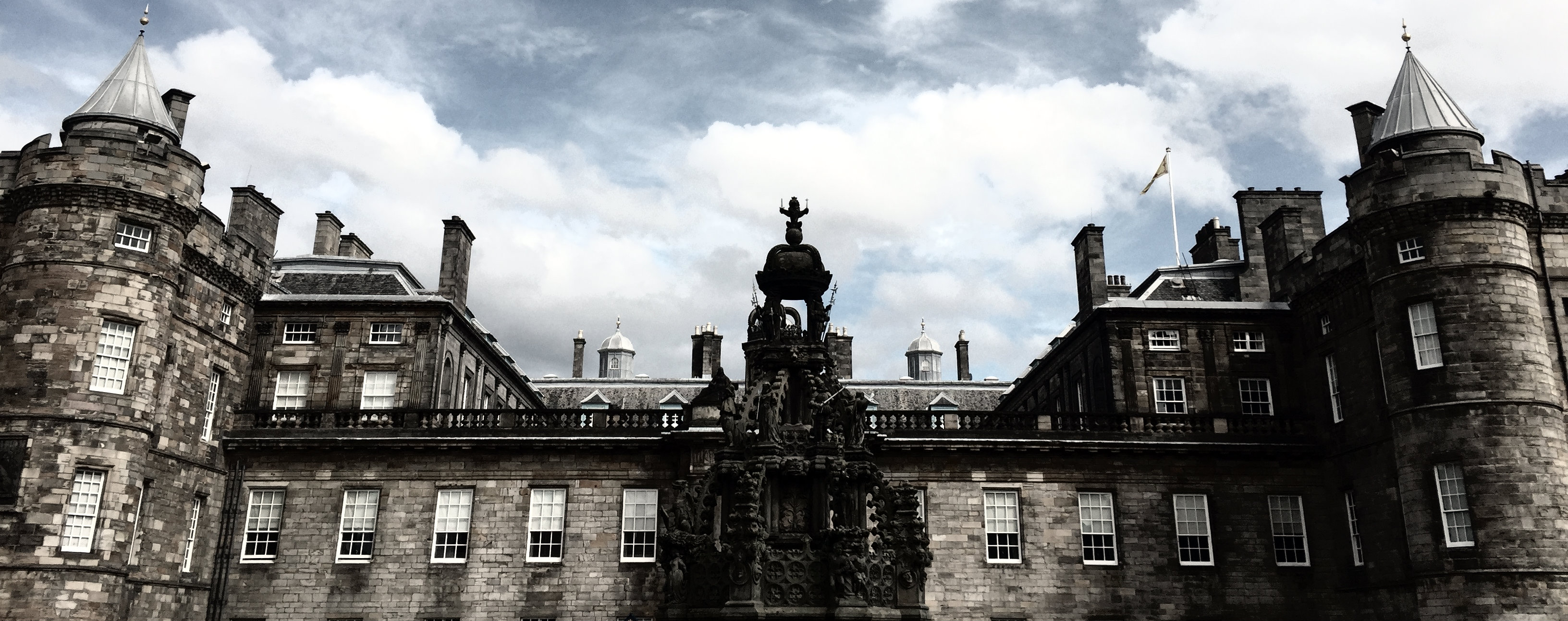 The forecourt, fountain, and georgian and jacobean frontages of Holyrood Palace, Edinburgh